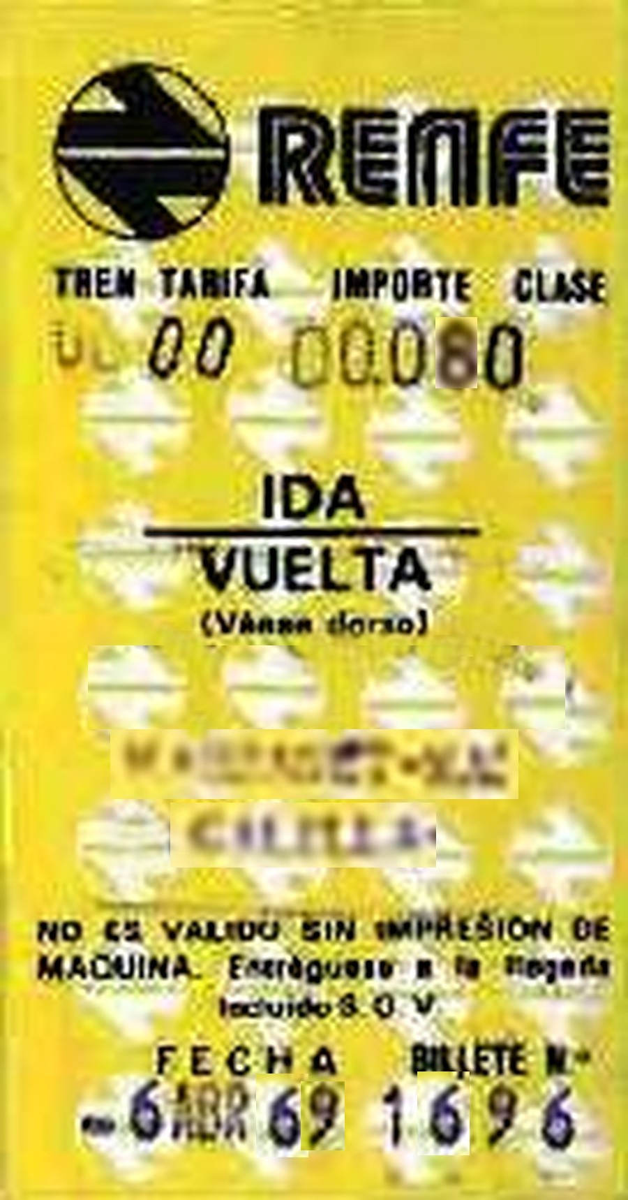 Recreation of a Renfe ticket, Hugin type, from 1969 (obsolete sinc 1999)